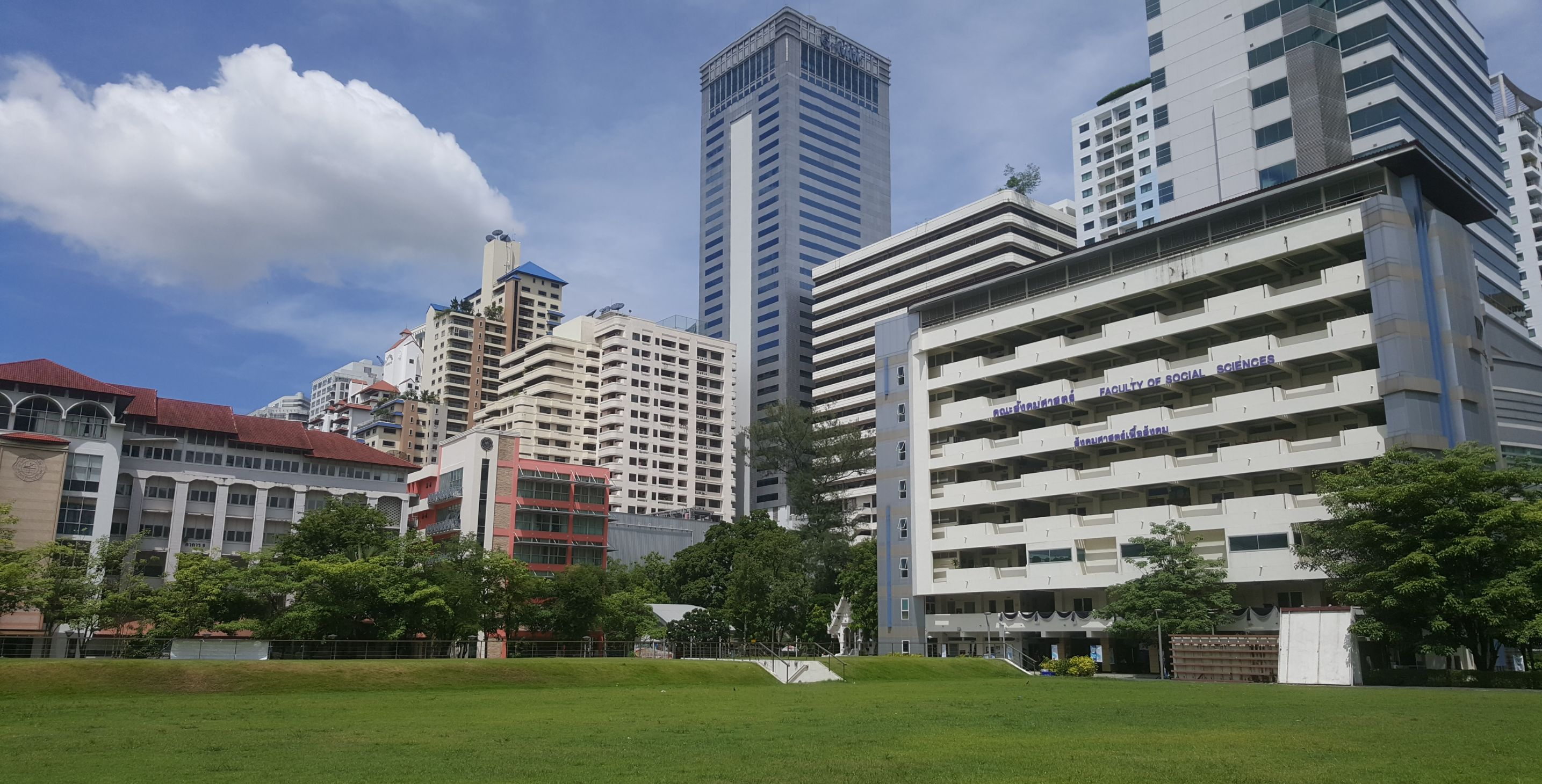 swu building